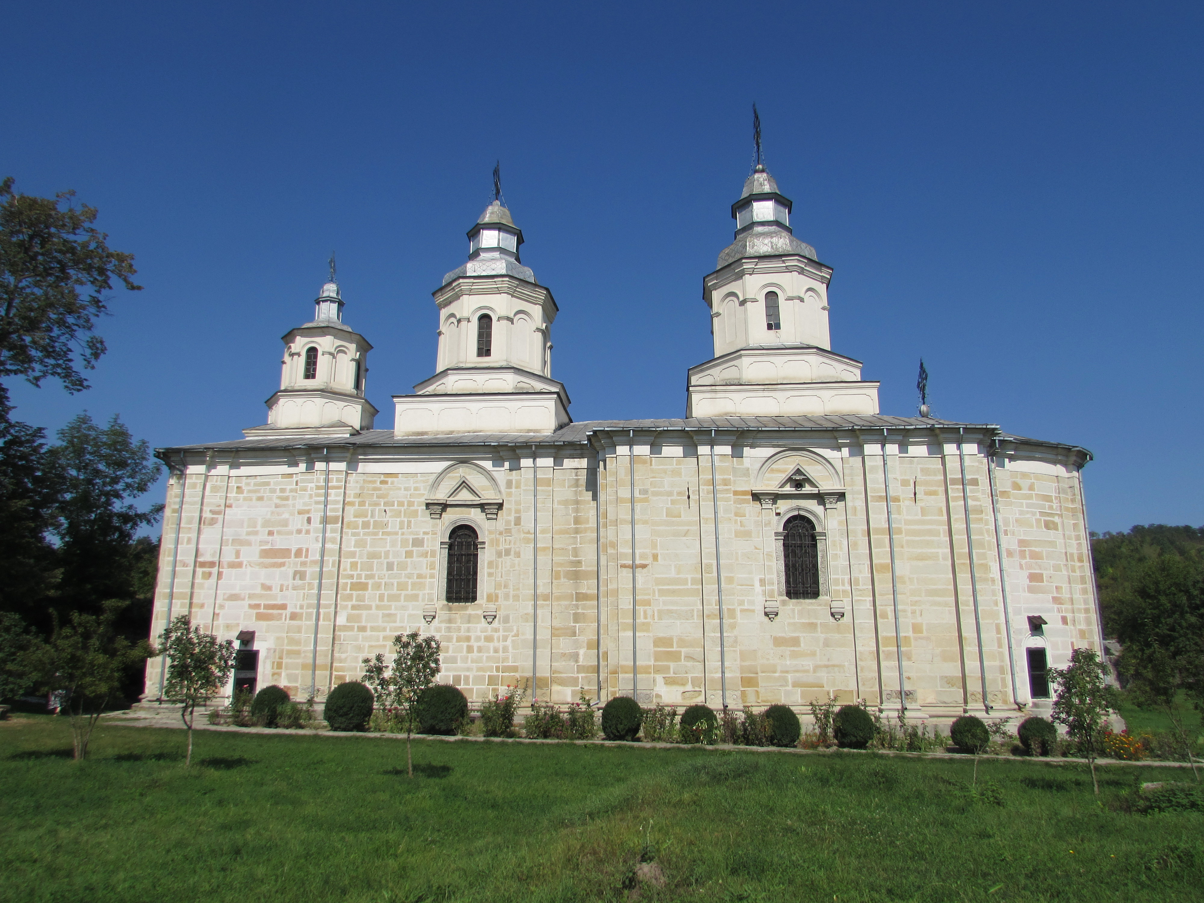 Fosta mănăstire Cașin